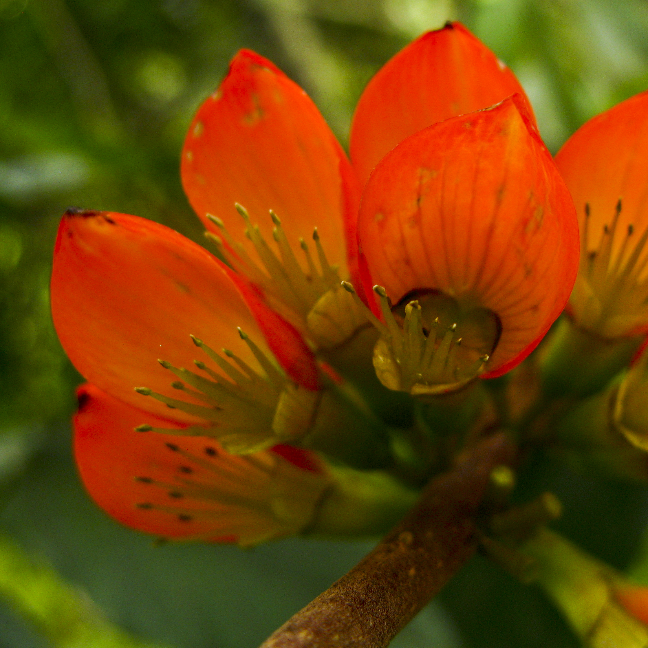 this is the flower of erythrina edulis